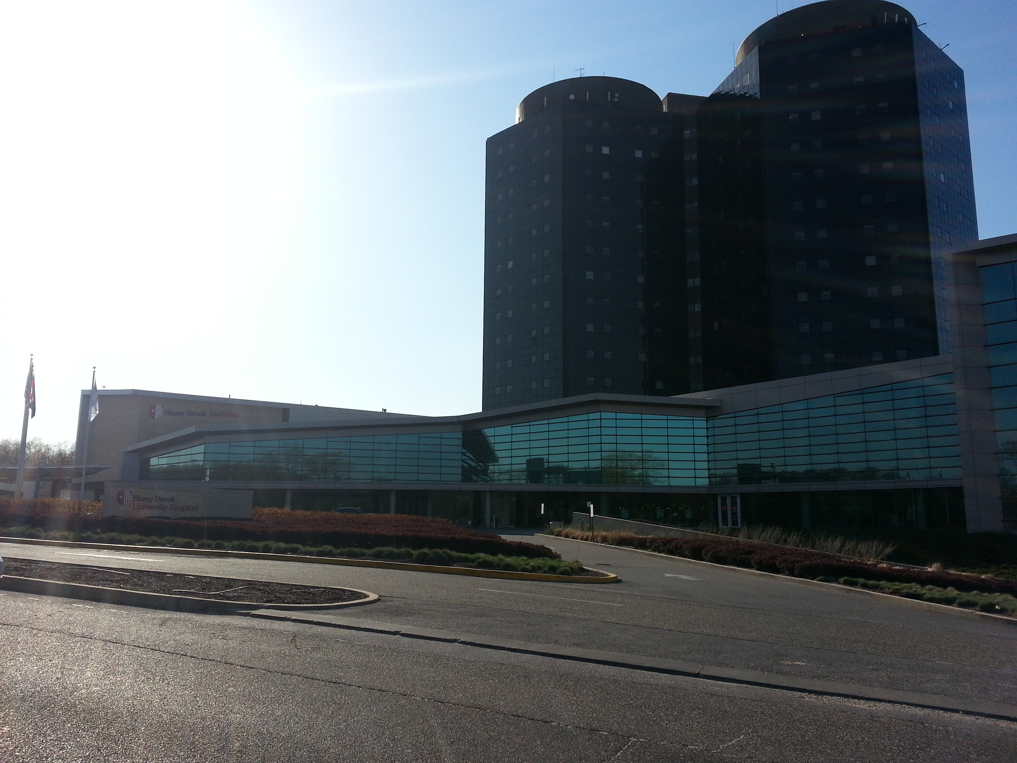 This is the Stony Brook University Hospital located in the East side of the Stony Brook University campus. Image was created on April 27th 2013